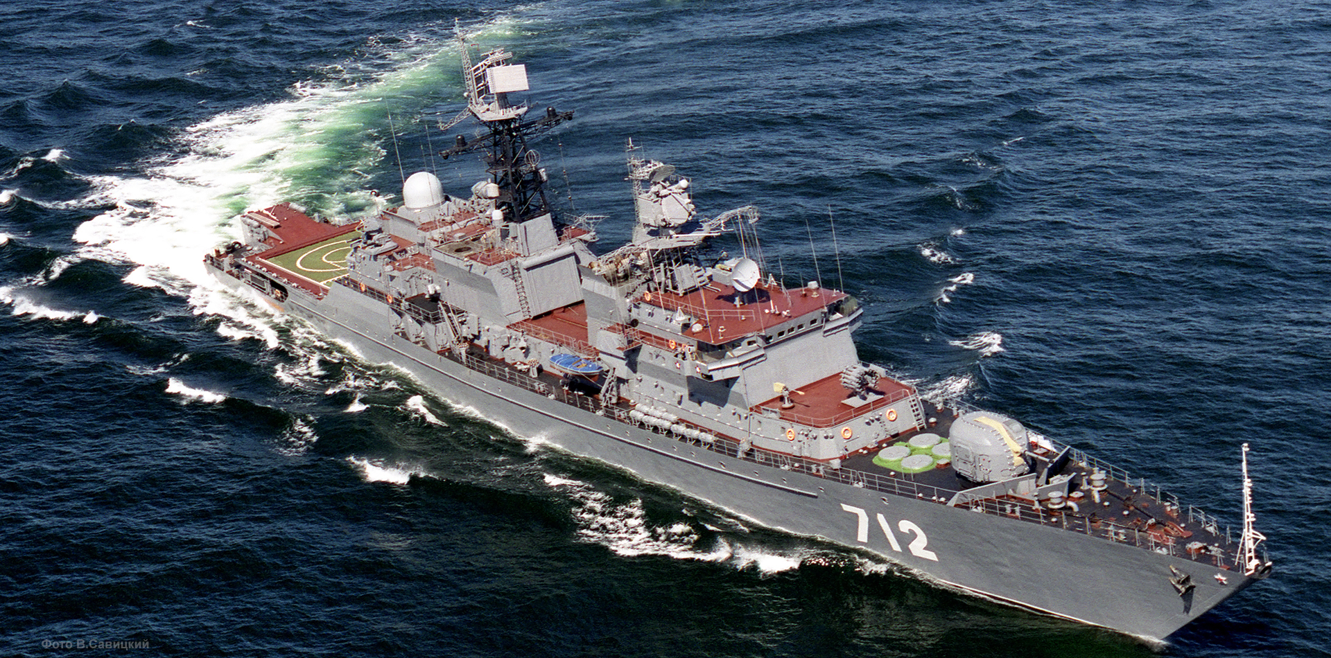 Frigate Neustrashimy (FF 712) 188